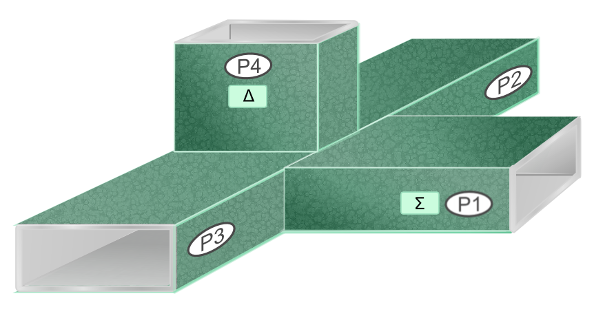 Magic tee power divider.